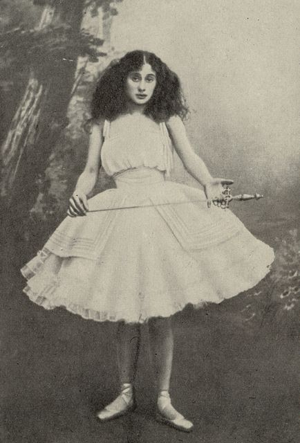 Photo of Anna Pavlova (1881-1931) - Prima ballerina of the St. Petersburg Imperial Theatres - in the title role of the ballet Giselle